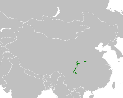 Habitat of the Giant panda (Ailuropoda melanoleuca), with national borders added. The western habitats are primarily in the Minshan Mountains of Sichuan and Gansu provinces of China. The eastern habitat is in the Qinling Mountains of Shaanxi province, China, and harbors the subspecies A. melanoleuca qinlingensis. See Habitat: the land of the Panda. World Wildlife Fund.